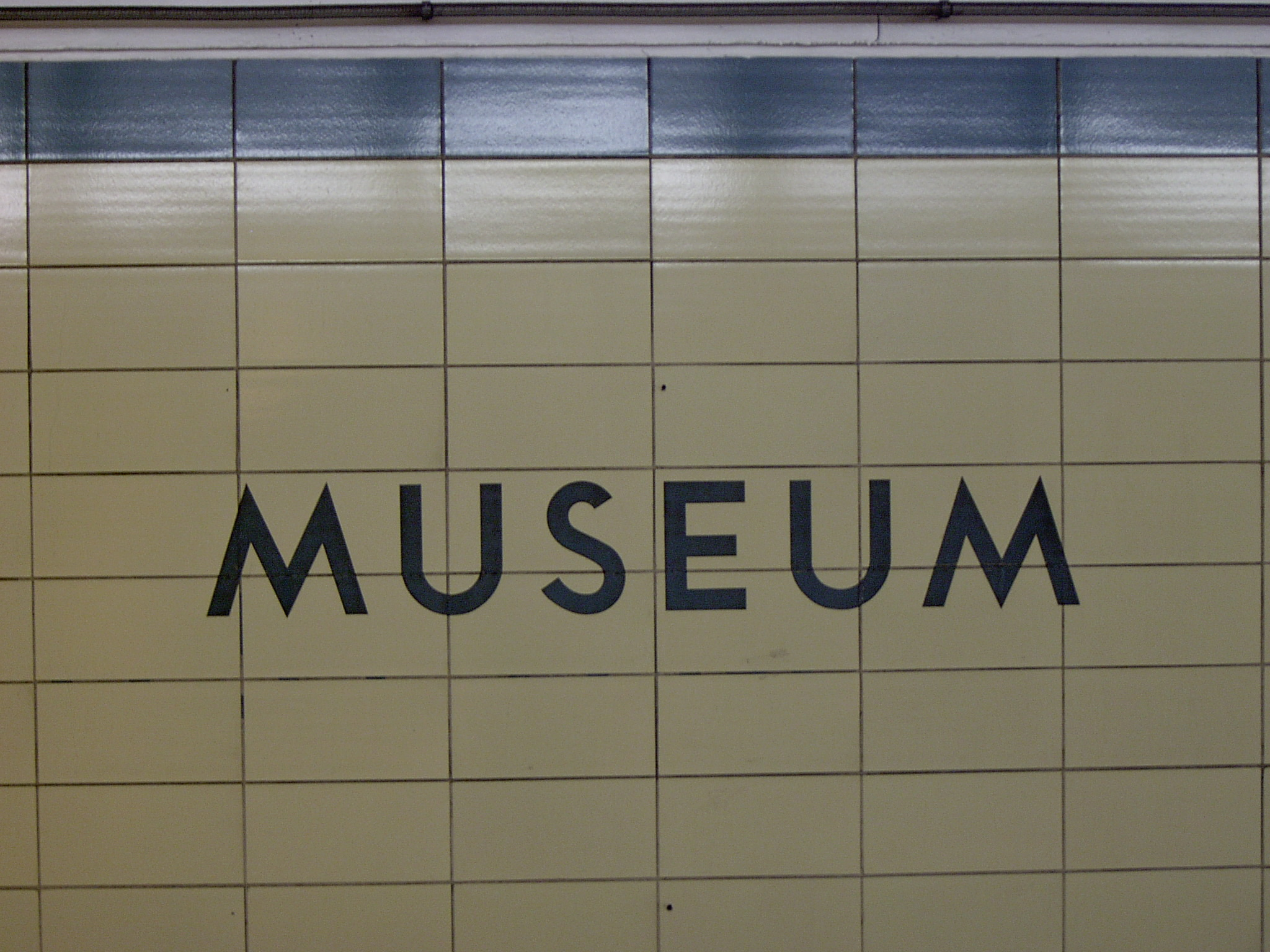 Photograph depicting the previous wall design of Museum station on the TTC's Yonge-University-Spadina line. Also posted on my Flickr account here